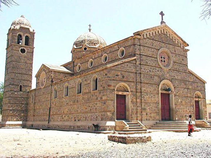 Catholic church in village Akrur, south-east from Asmara.